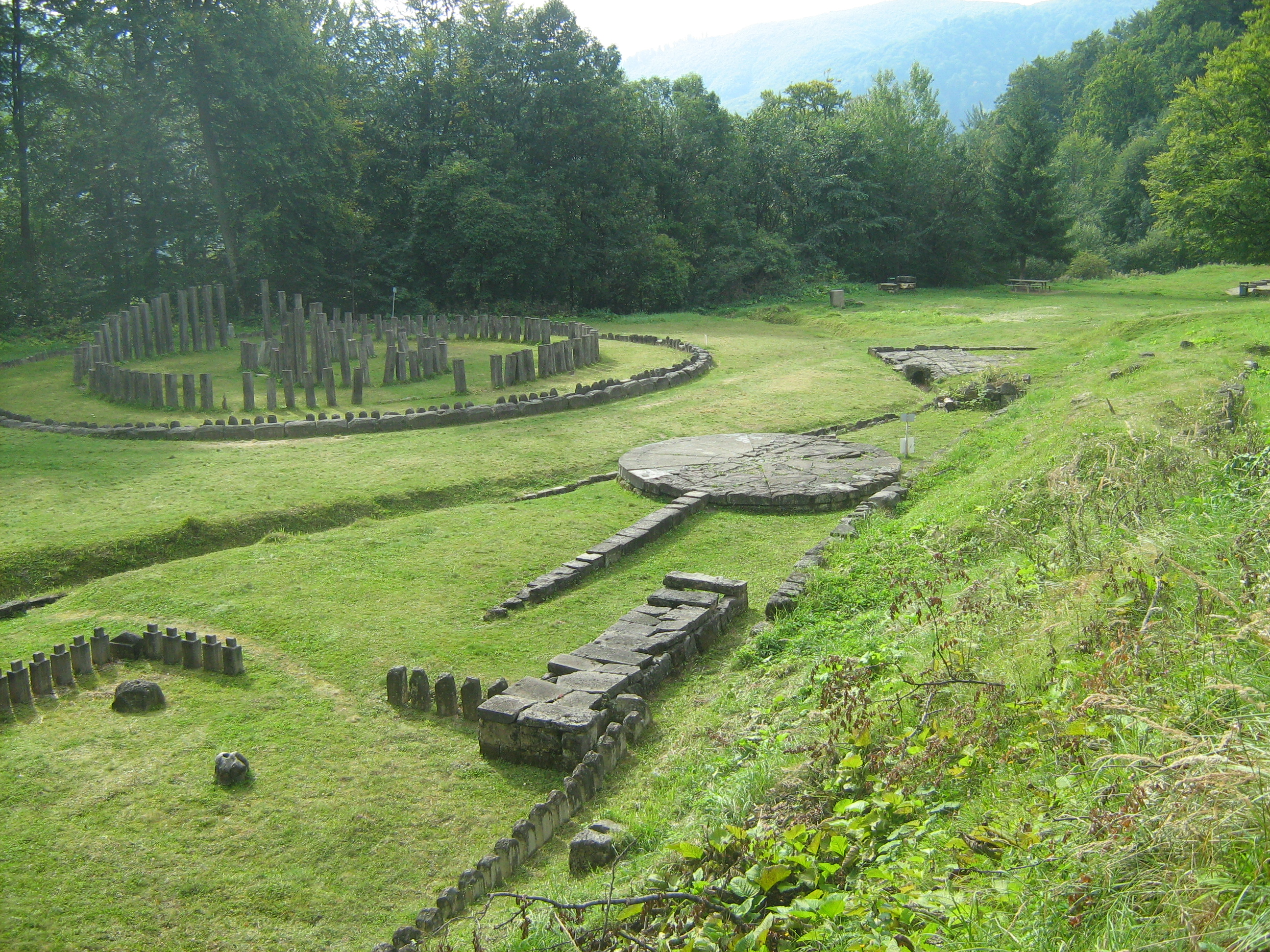 The sanctuaries at Sarmizegetusa Regia, the capital of ancient Dacia (modern Romania)